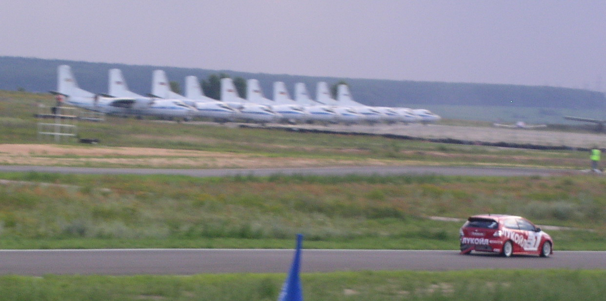 Lukoil racing team racing team driver on the AutoDrom Moscow Ring (he's about to lose something!). Myachkovo airfield is visible on the background.